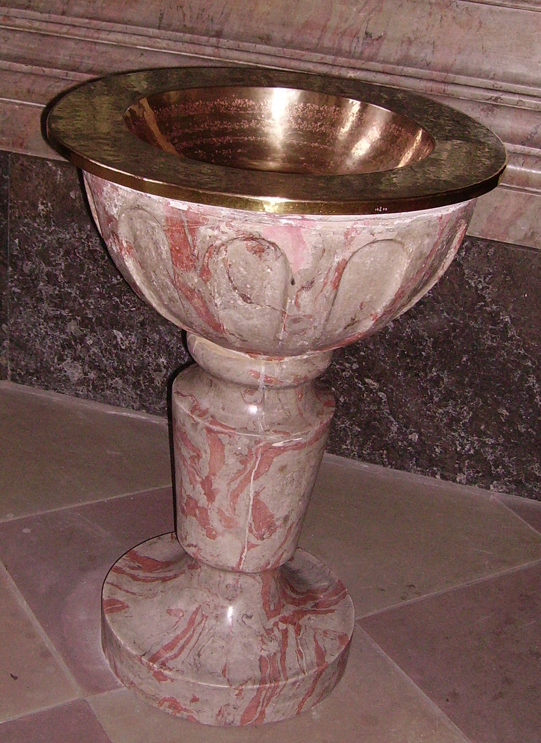 Holy water in the Mannheim Schlosskirche